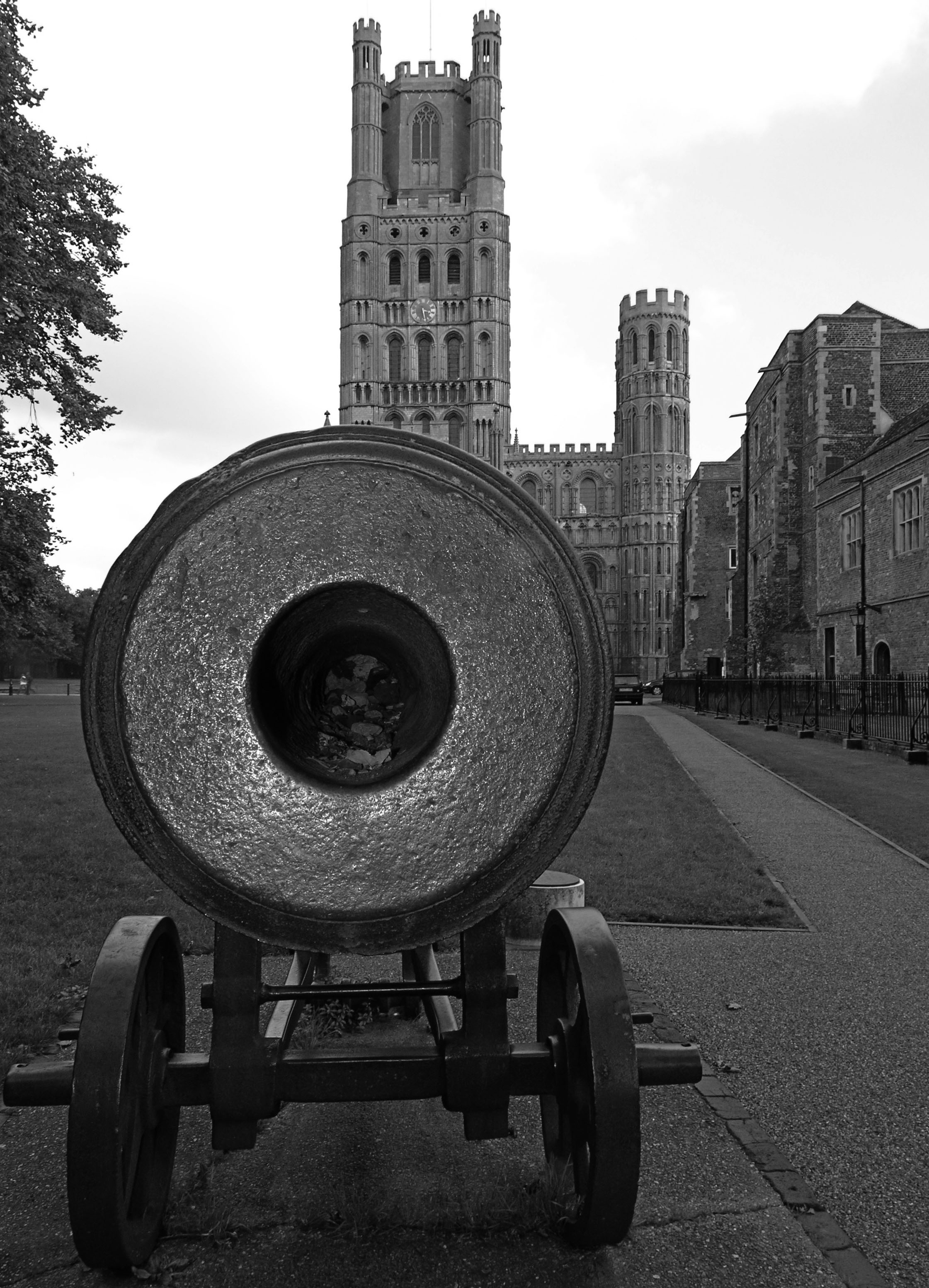 Ely Cathedral in B&W. Treatment, er, 100% green channel plus 72% red filter. This image is looking east of the Crimean War canon on the Palace Green with Ely Cathedral in the background and the front of the Bishop's Palace to the south east on the right.